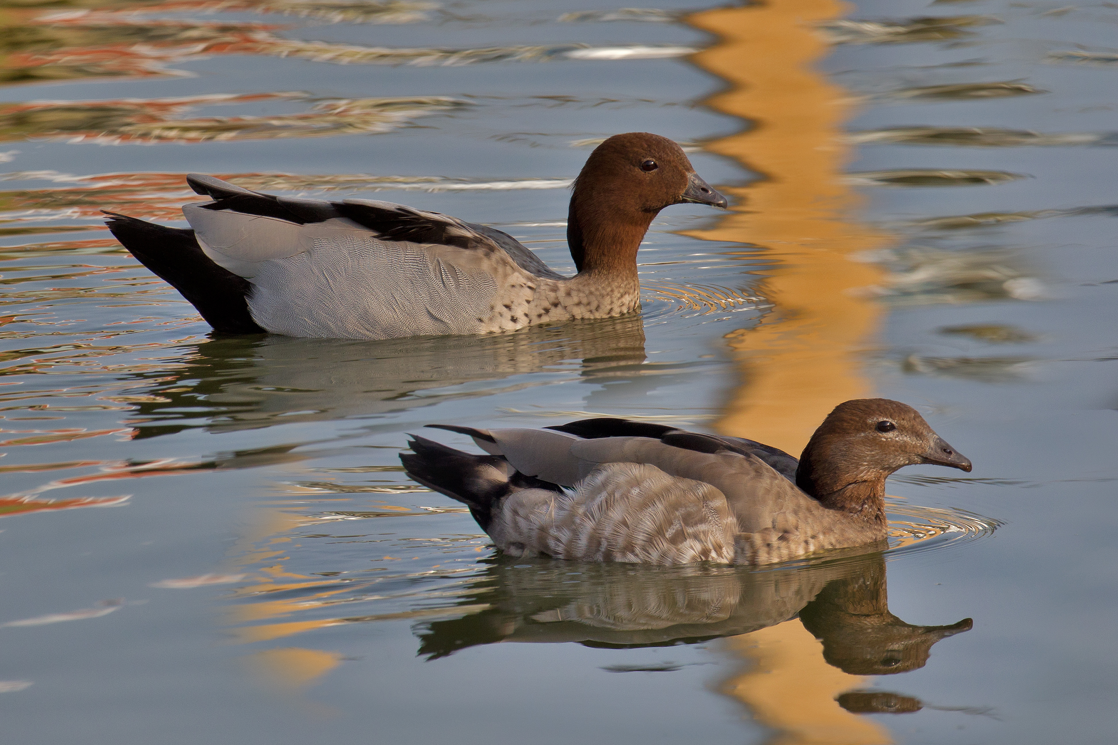 Australian Wood Duck